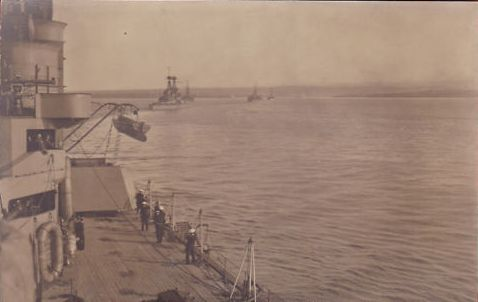 HMS Superb & Allied entering Sebastopol Harbour. Allied Intervention in the Civil war of Russia